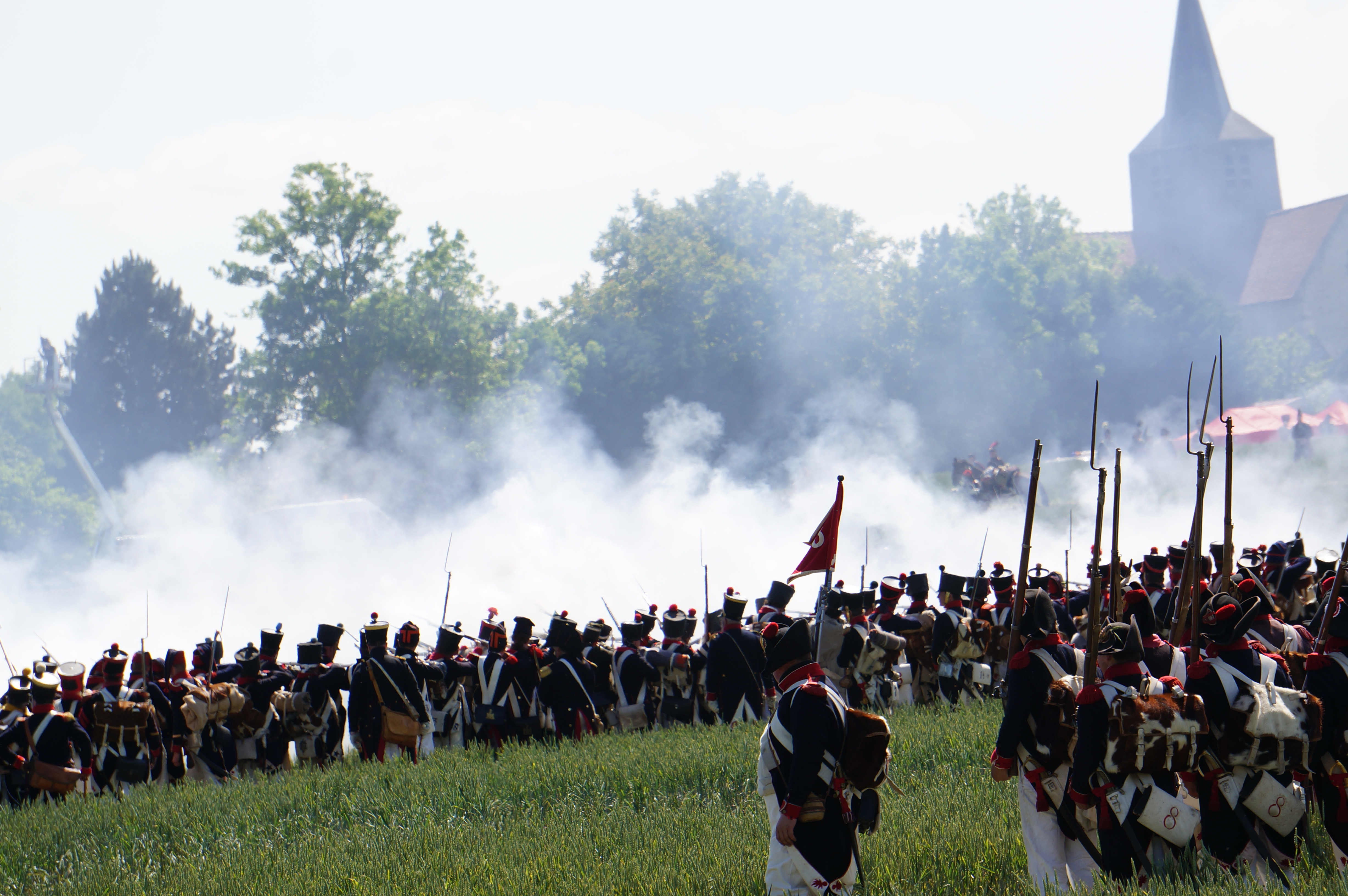 Bicentenary re-enactment of the Battle of Montmirail: The Ricard division and in the background the church in Marchais